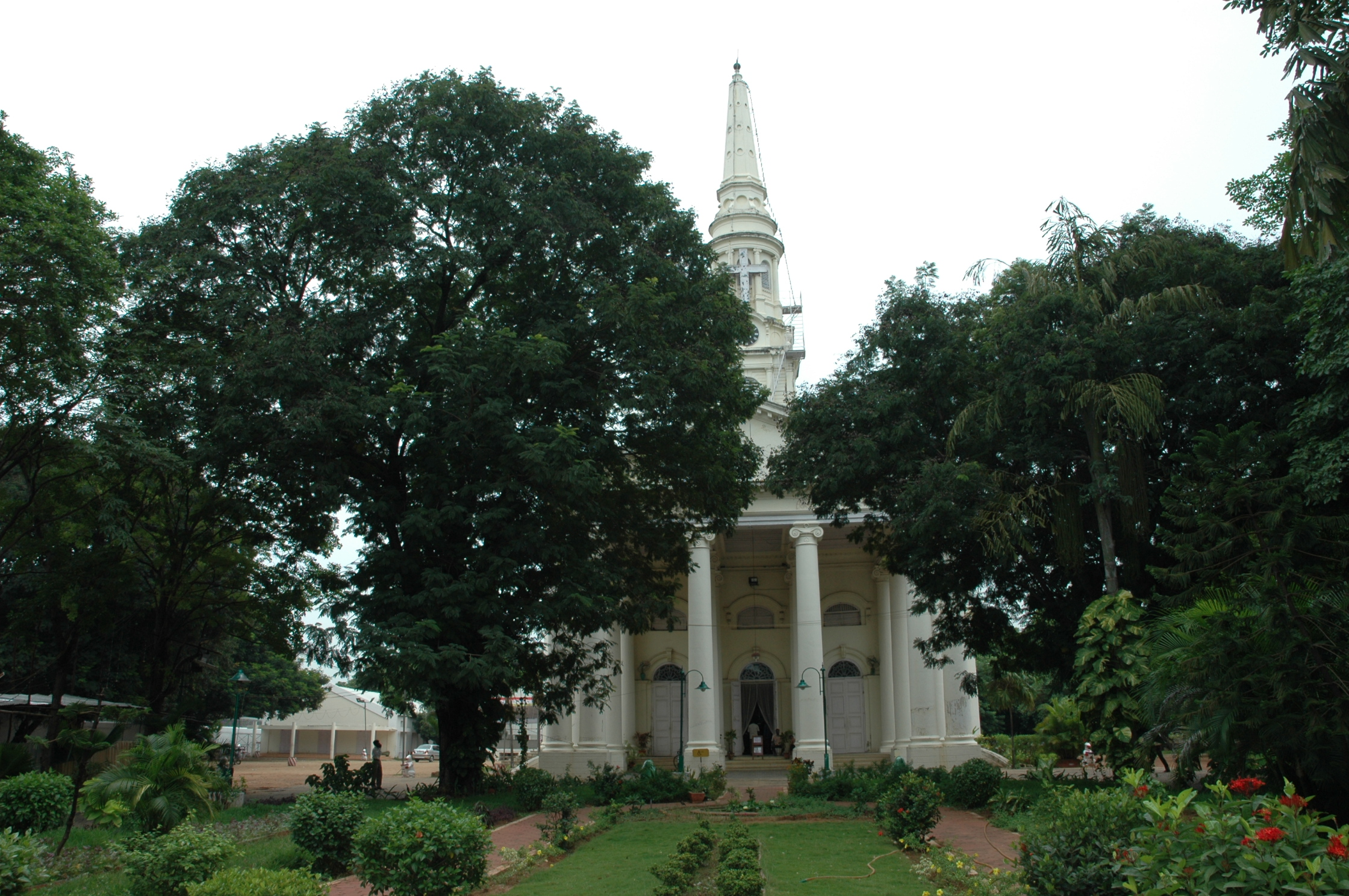 St. George's Cathedral and gardens, Chennai